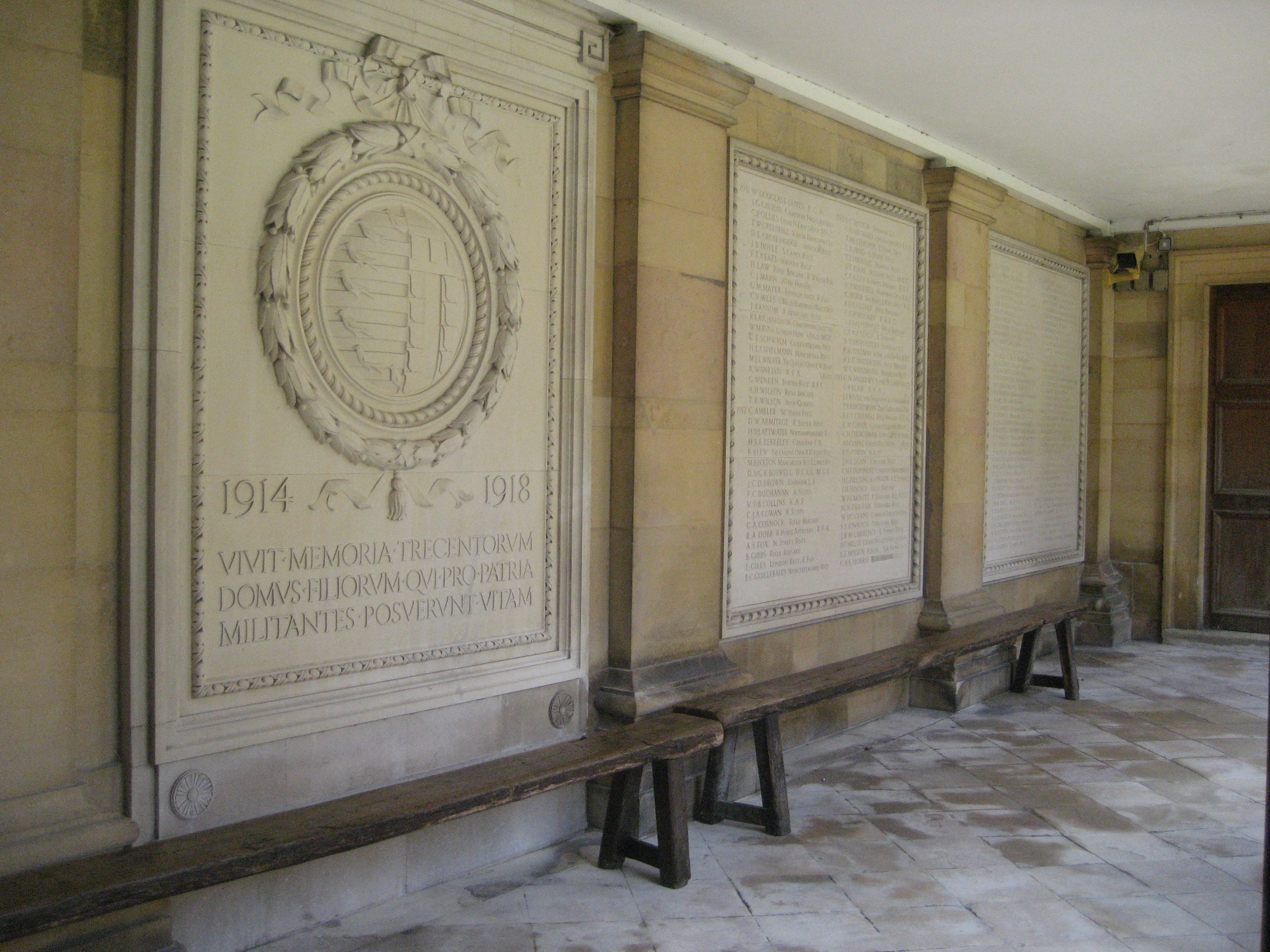 War Memorial Pembroke College, Cambridge, England (UK). Complete list of the Pembroke Dead: The Latin inscription: Vivit memoria trecentorum domus filiorum qui pro patria militantes posuerunt vitam (The memory of the three hundred sons of this house who gave their life as soldiers for their country lives on.)